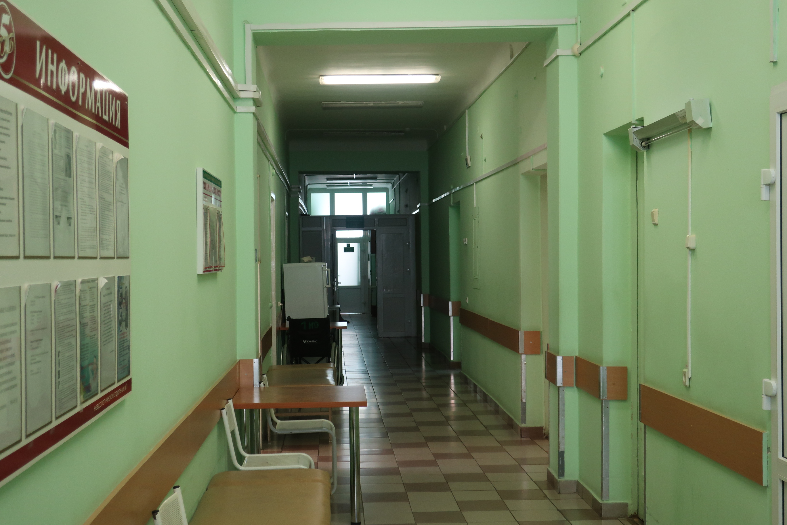 Inside the 5th city hospital (neurological department). Minsk, Belarus